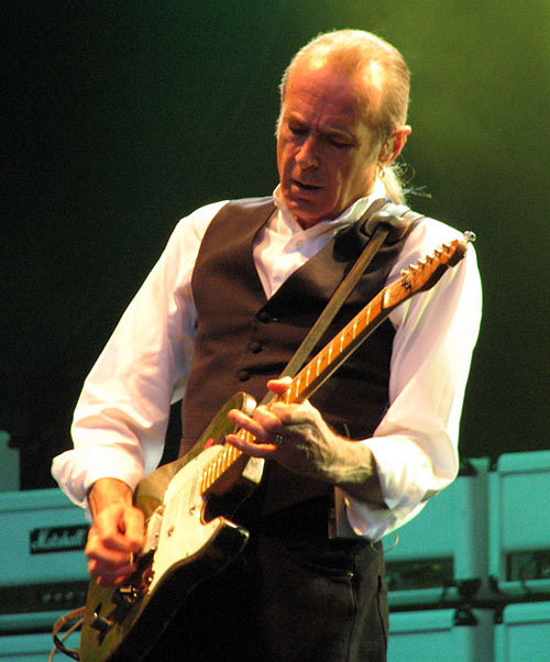 Francis Rossi in Brunnsparken, Örebro, Sweden